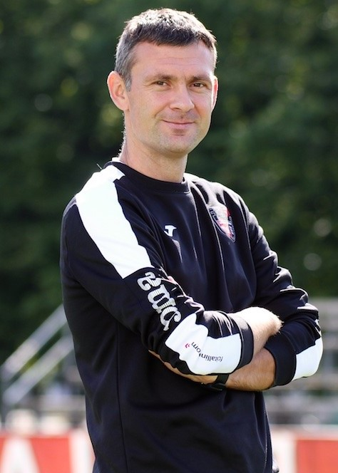 Aleksandar Rogic in FCI Tallinn uniform